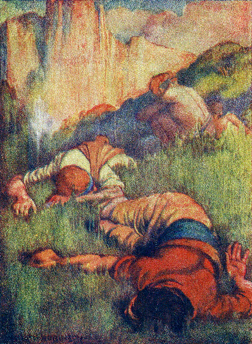 AND DREAM IDLE, HAPPY DAY-DREAMS THAT NEVER ENDED.